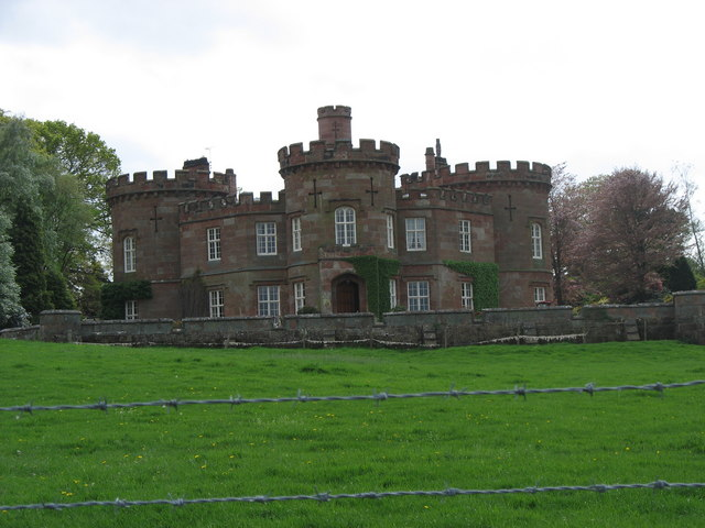 The Citadel The Citadel was built by Sir Rowland, for his mother and sister Jane in the 1820s.